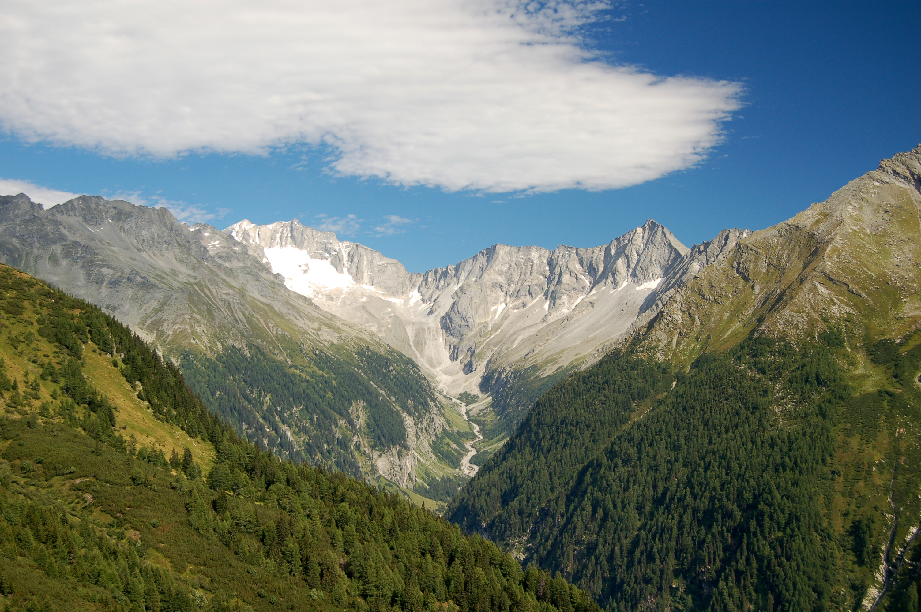 The end of the Seebachtal in Mallnitz, Kärnten is called Lassacher Winkel. f.l.t.r.: Großelendkopf, Hochalmspitze (3360m), Lassacher Winkelscharte, Säuleck (3086m). Seen from middle station of Ankogelseilbahn.